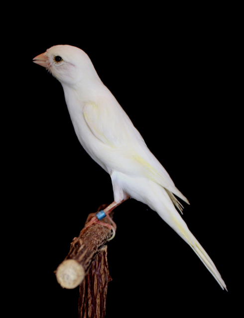 canary